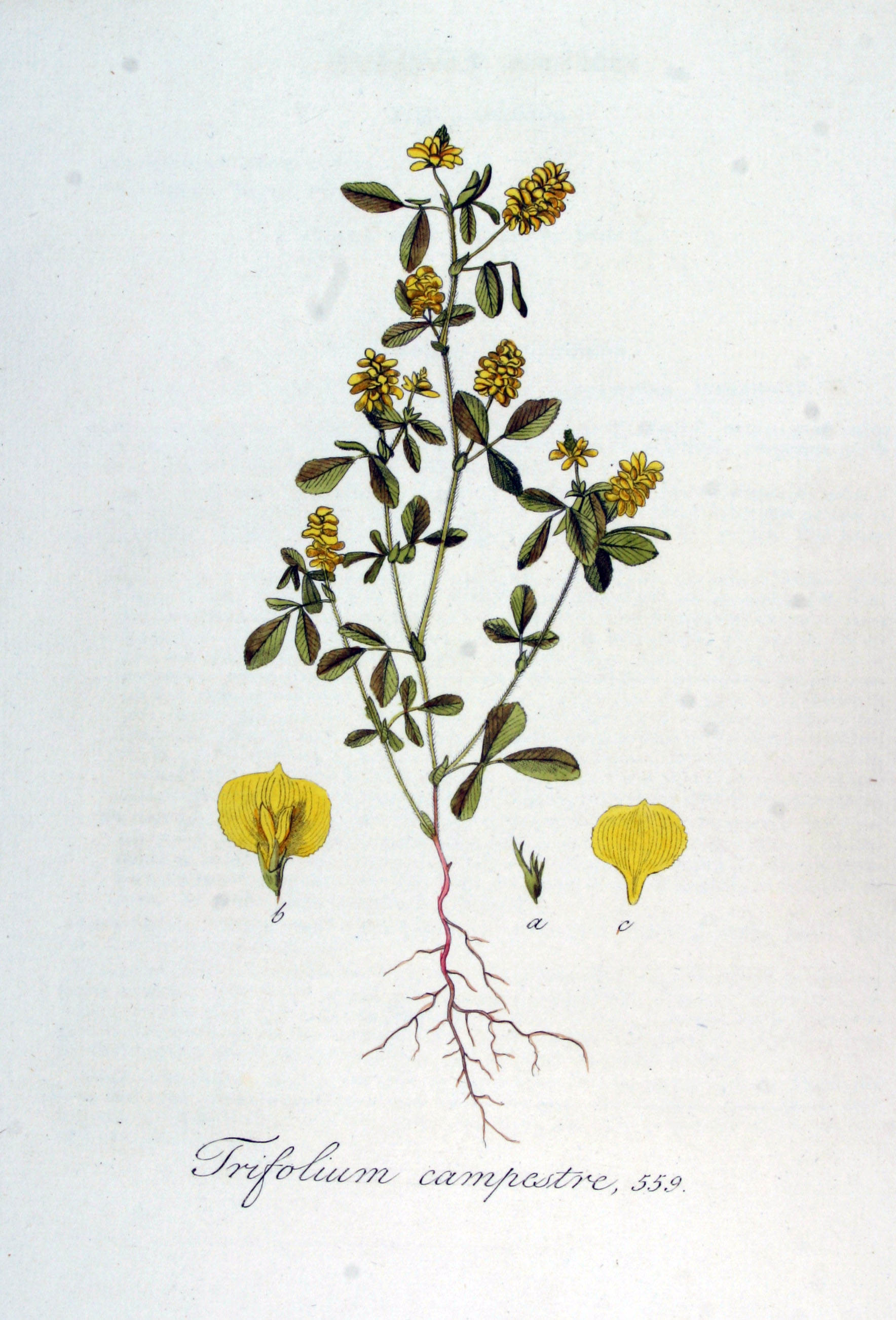 Trifolium aureum Pollich (Syn. Trifolium campestre C.C. Gmel., non Schreb.; Trifolium pseudoprocumbens C.C. Gmel.)